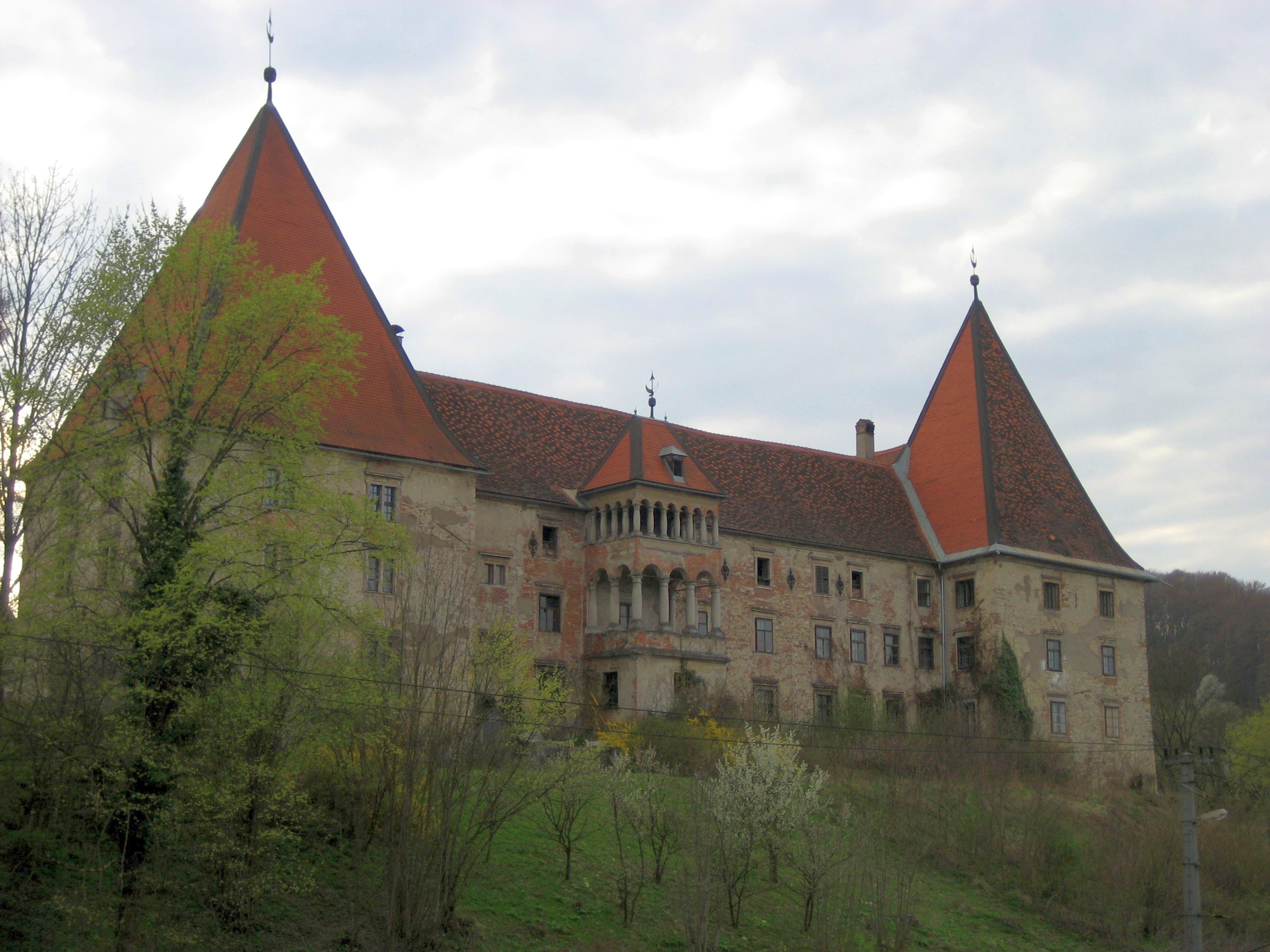 Spielfeld castle in Styria, Austria, Europe